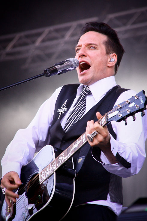 Bela B. on stage at the Nova Rock Festival 2010